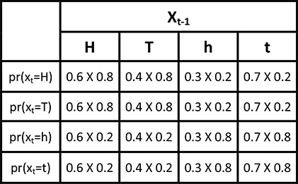 XXXXX